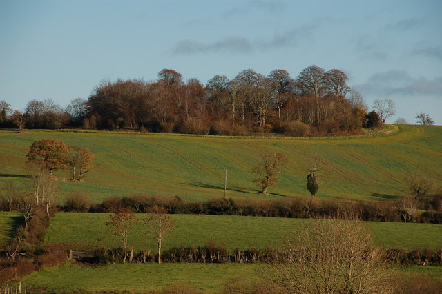 Lisnagade fort near Scarva Lisnagade fort is a rath. For an explanation see 241221. It is thought to date from around 350. A bronze cauldron, spear and arrowheads were found on the site in 1832.